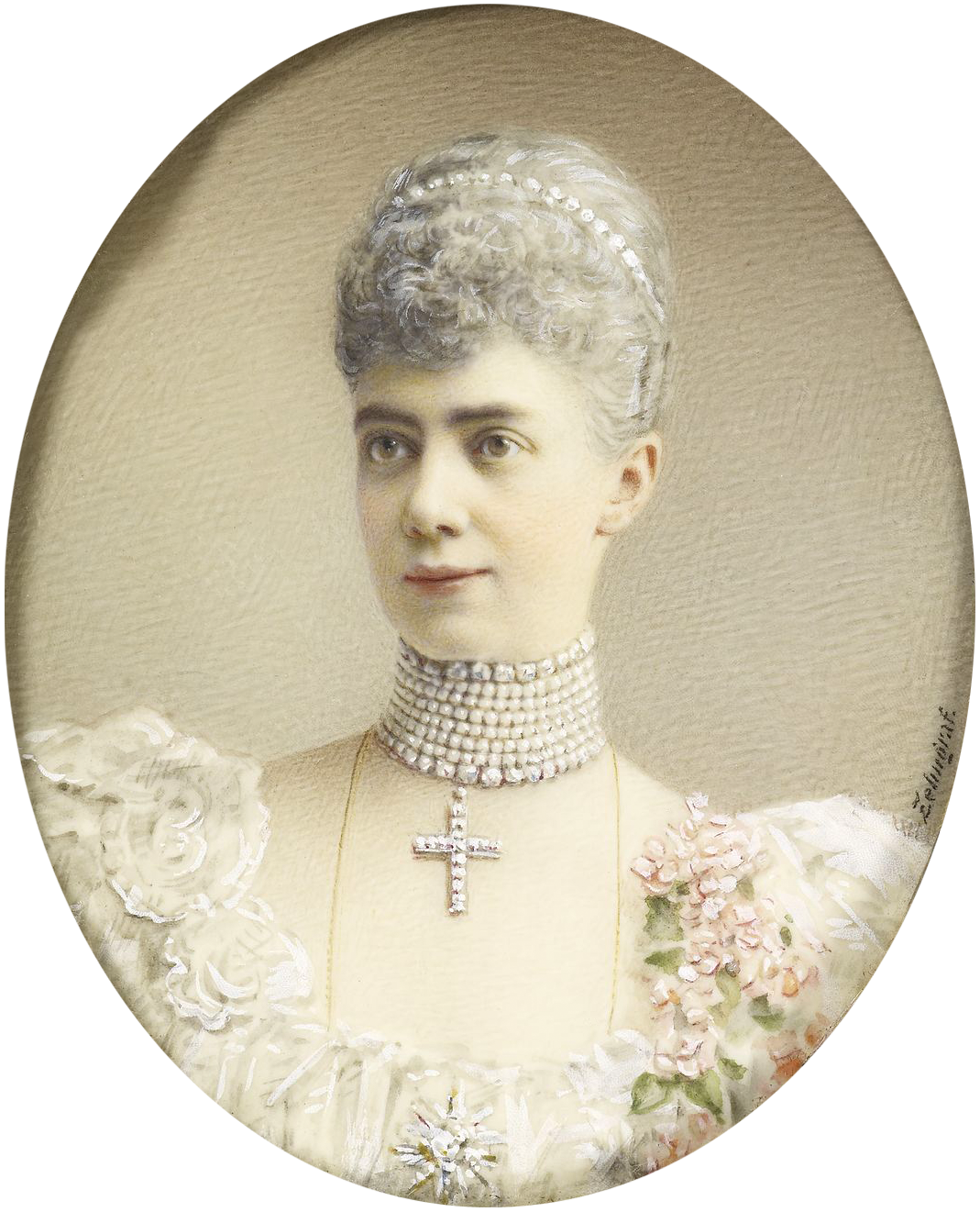 Portrait miniature of Thrya, Duchess of Cumberland, Crown Princess of Hanover